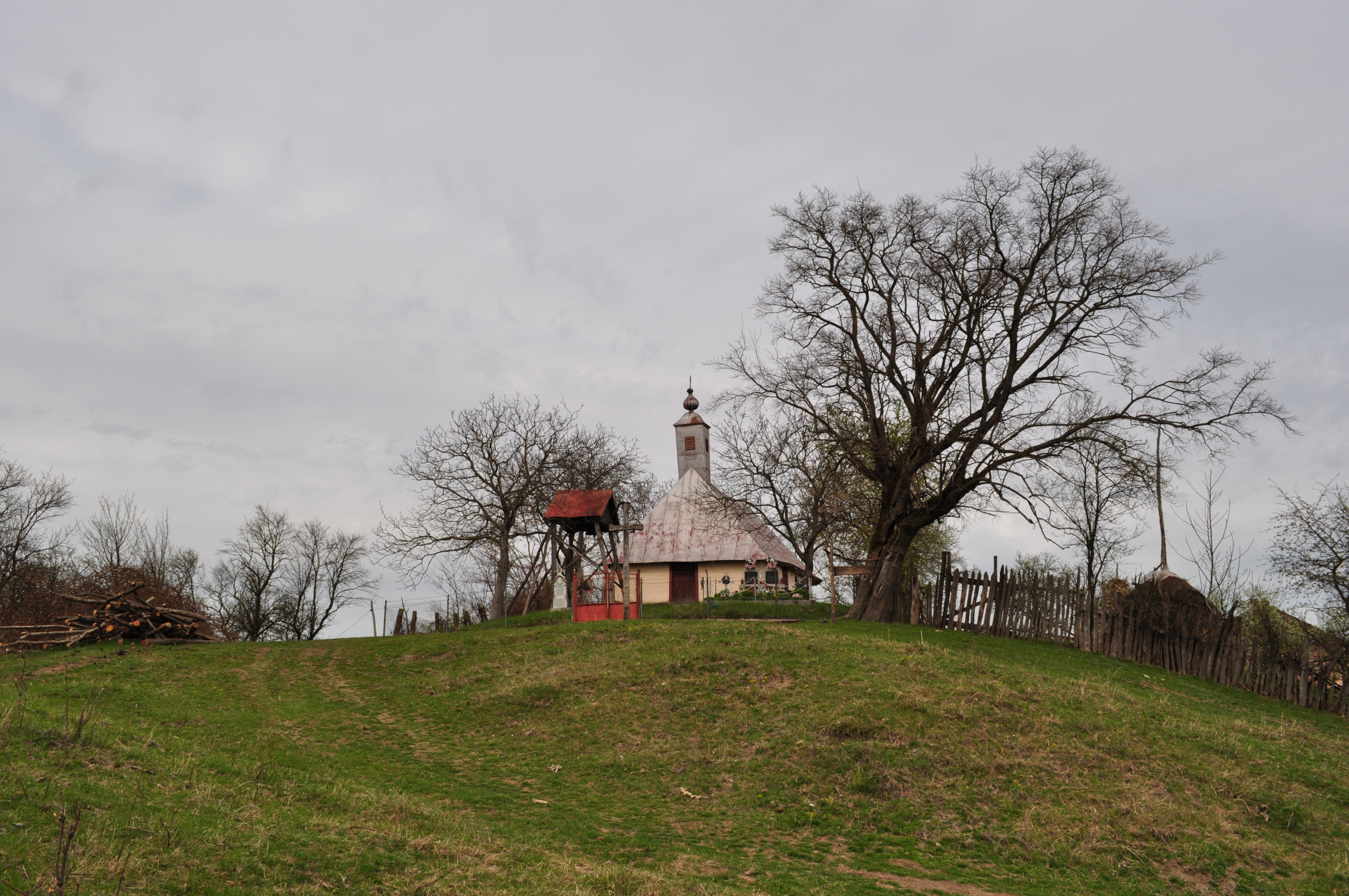 The old wooden church in Bruznic, Arad county, Romania